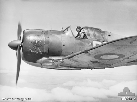 Australian War Memorial image NEA0414 Flying from Mareeba, Qld. 1944-03-18. Close portside view of a CAC CA-13 Boomerang fighter aircraft, serial no. A46-128, of No. 5 (Tactical Reconnaissance) Squadron RAAF, piloted by 407056 Flight Lieutenant D. H. Goode of Port Pirie, SA. The aircraft is coded BF-N and nicknamed "U-Beaut 2".